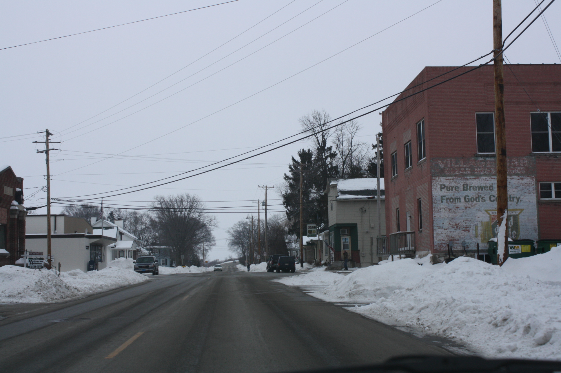 Downtown Van Dyne, Wisconsin, formerly Wisconsin Highway 175 and the Yellowstone Trail.